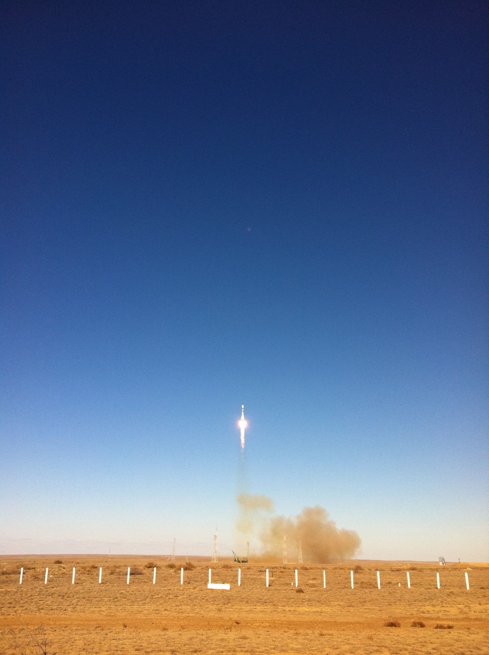 At the Baikonur Cosmodrome in Kazakhstan, a Soyuz booster launches on Oct. 30, 2011 carrying the unmanned Russian ISS Progress 45 cargo craft to orbit for the start of a three-day trip to the International Space Station. The resupply craft, which is scheduled to dock on Nov. 2, is carrying 2.9 tons of food, fuel and supplies for the residents of the station. This marked the first launch of the Soyuz booster from Baikonur since a third-stage failure on Aug. 24 resulted in the loss of the previous Progress cargo vehicle, the ISS Progress 44.